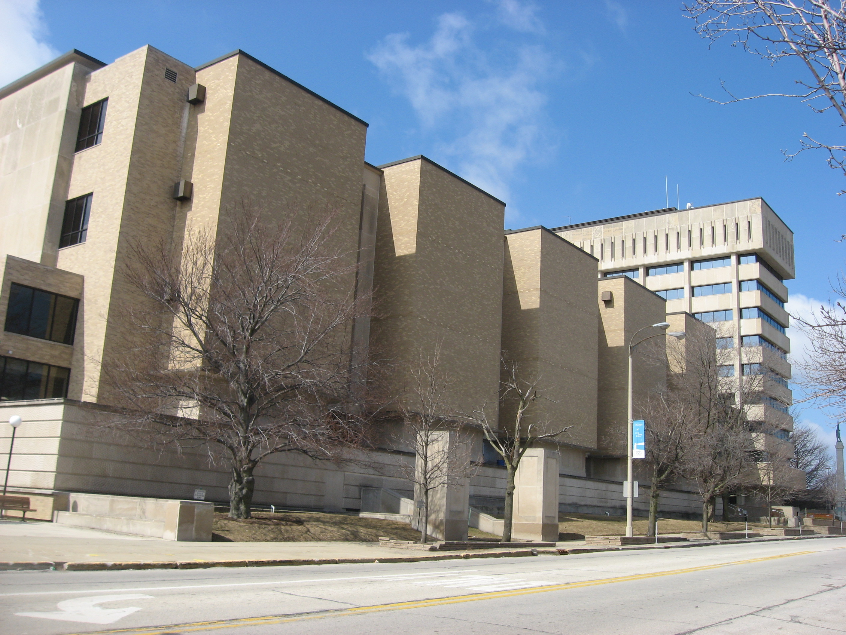 Eastern side of the Lake County Courthouse, located on the western side of County Street in downtown Waukegan, Illinois, United States. It was built in 1967.